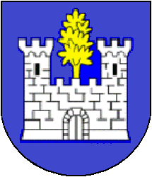 Shield of the municipality of Bovernier, Canton of Valais